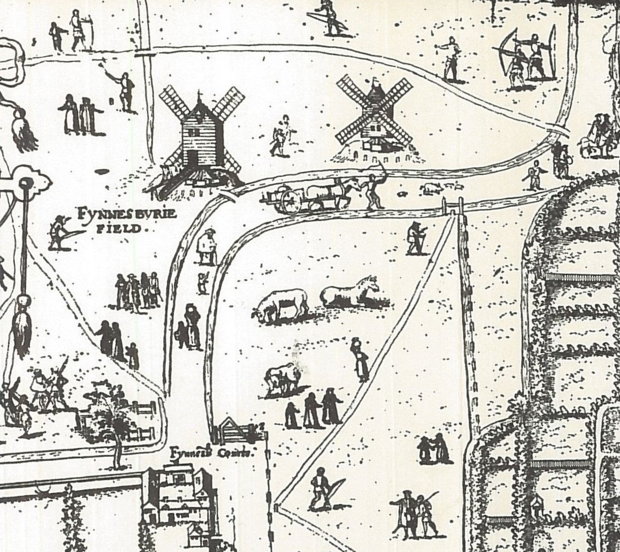 Detail from the "Copperplate" map of London, surveyed 1553-9, showing Finsbury Field